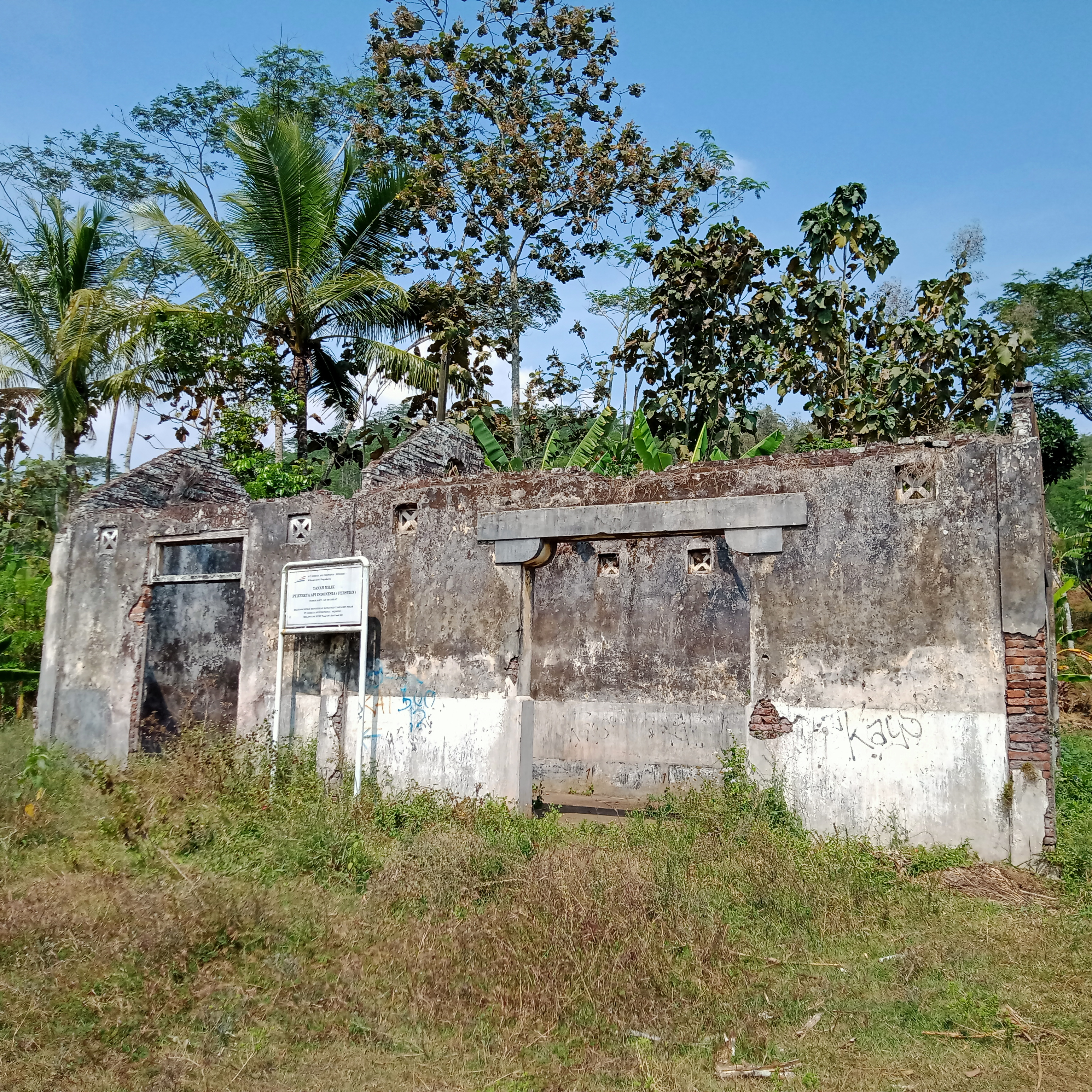 Stasiun Candi Umbul 2020